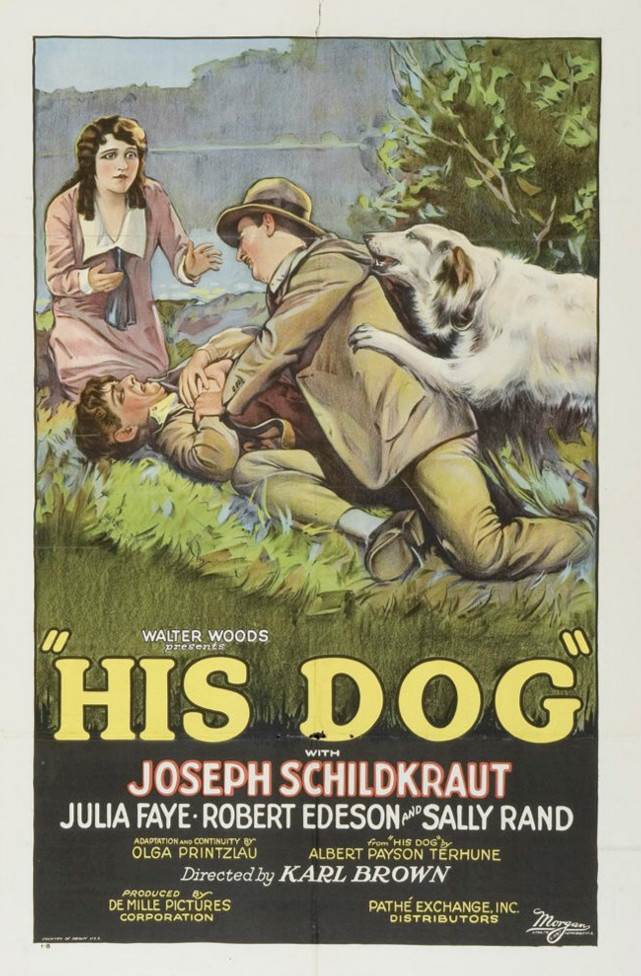 Poster for the American drama film His Dog (1927). There are no copyright marks. At bottom left is Country of origin USA 1-B. At bottom right is the logo of the Morgan Litho Co.-they printed the poster.